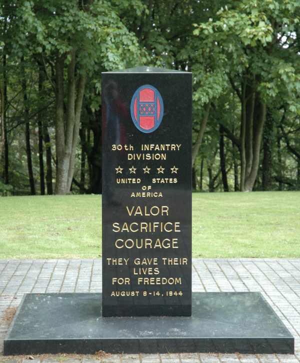 Photographer - Alan Hughes